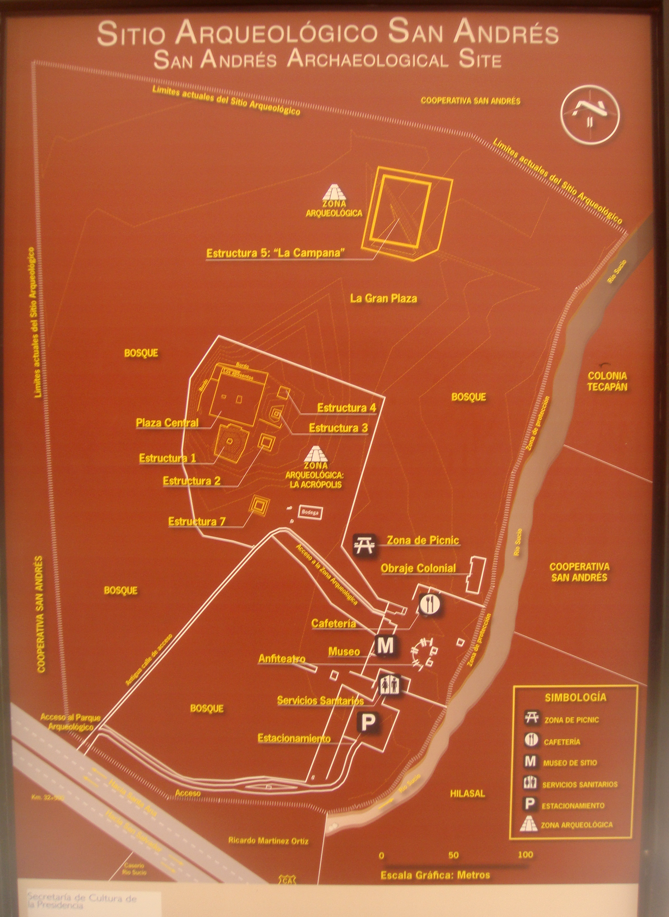 Map of San Andres archaeological site, located at the San Andres tourist center. El Salvador